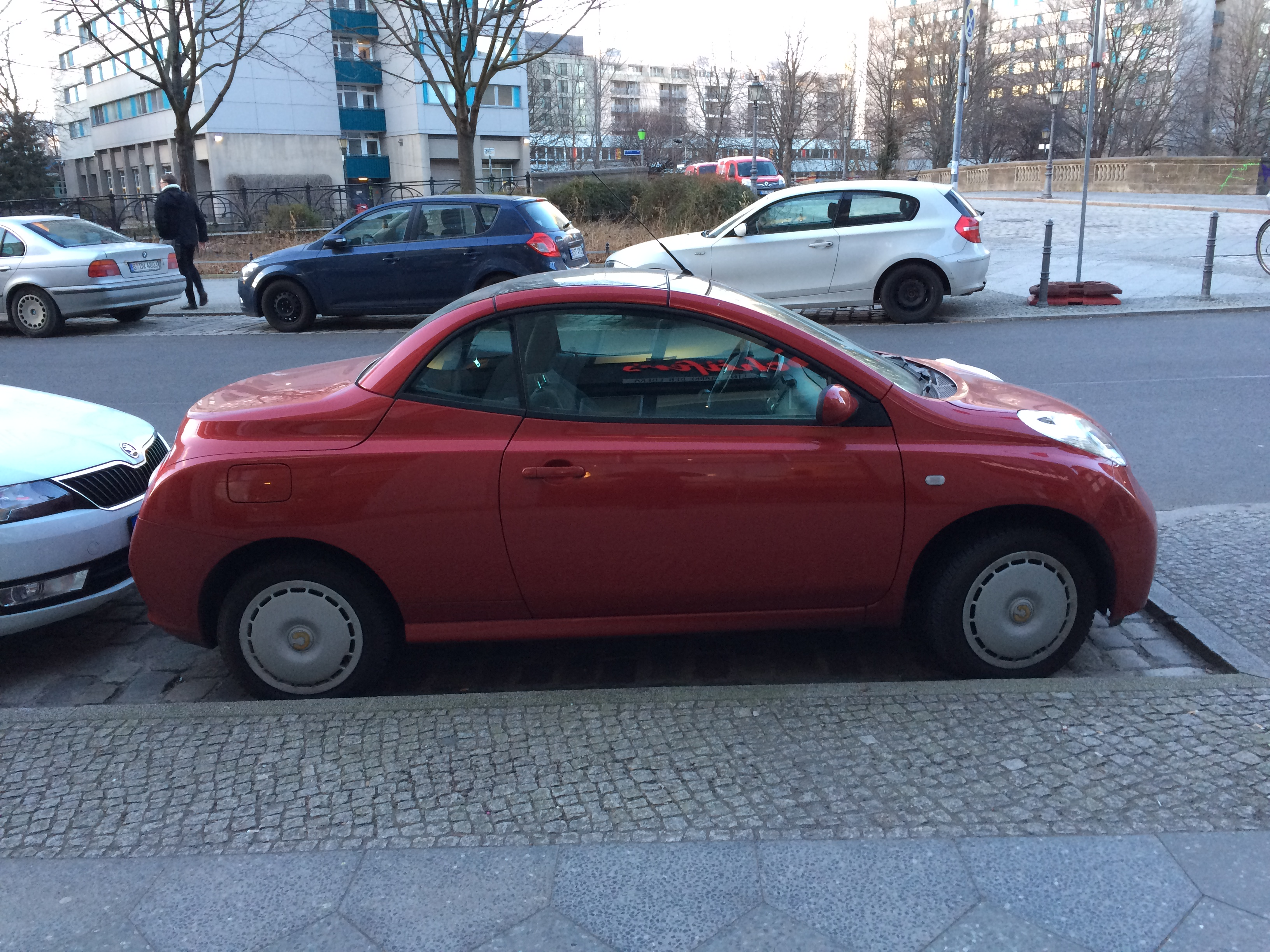 Micra C+C in Berlin